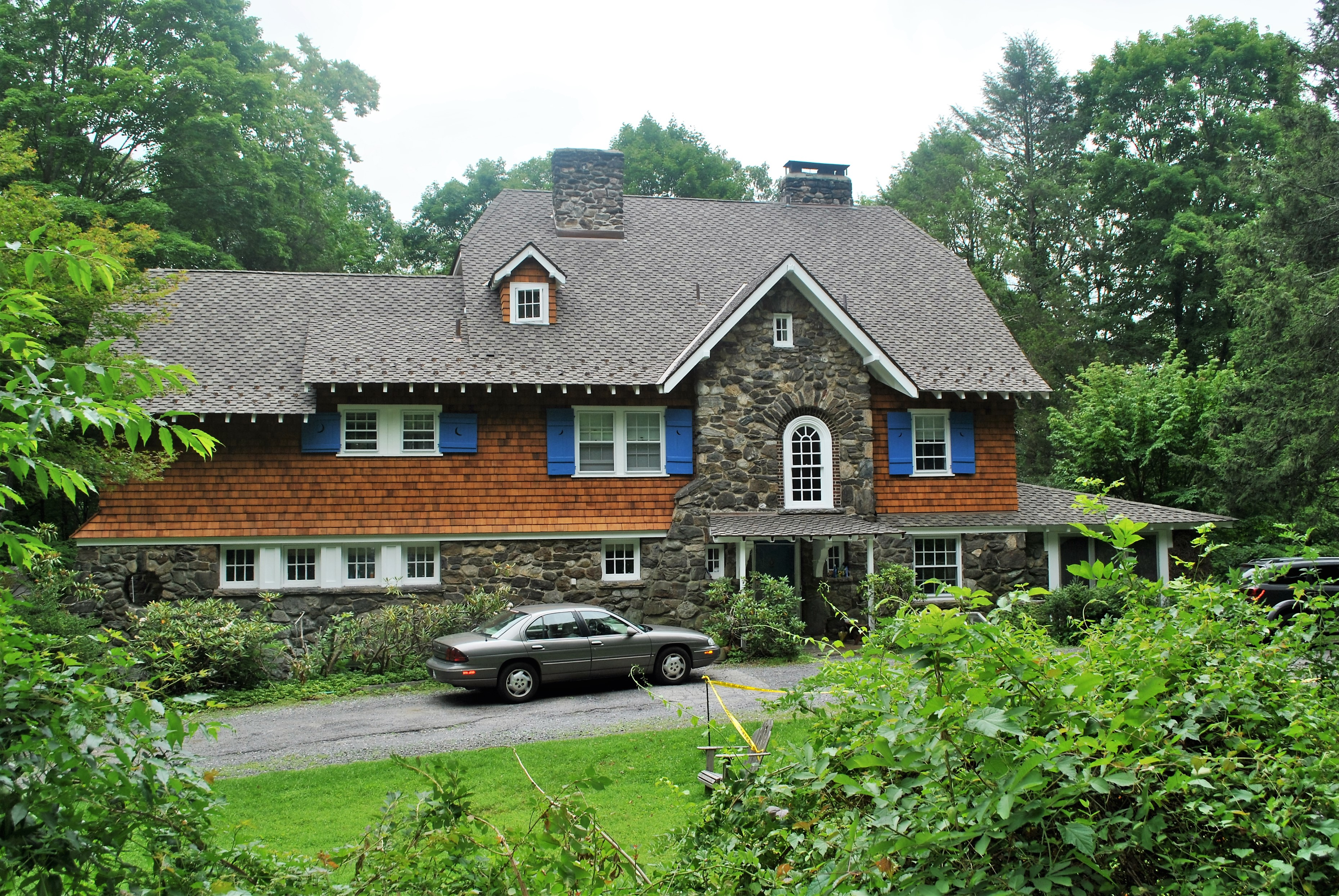 Image originally published in Queer Places: Retracing the Steps of LGBTQ people around the World Authored by Elisa Rolle